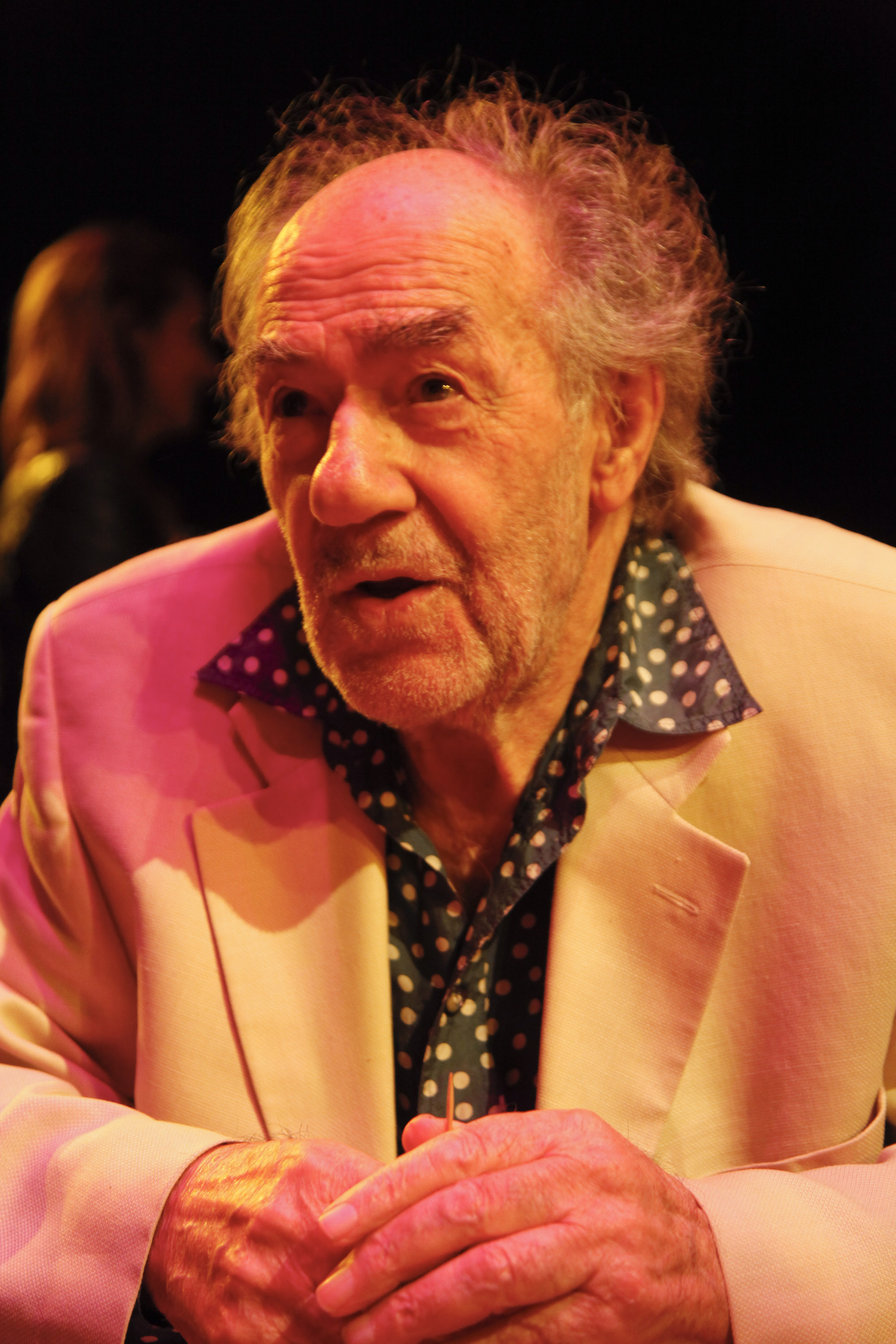 Director George Sluizer at the Miami International Film Festival North American Premiere of Dark Blood at the Olympia Theater at the Gusman Center for the Performing Arts on March 6, 2013